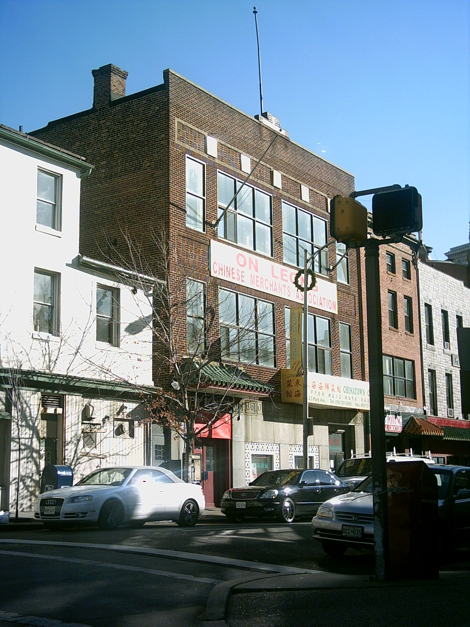 On Leong Chinese Merchants Association building at the 300 block of Park Avenue, Chinatown, Baltimore, Maryland, USA